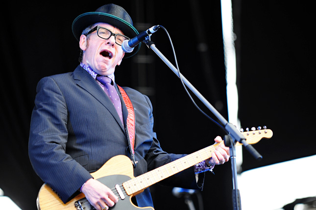 West Coast Blues N Roots Festival 2011